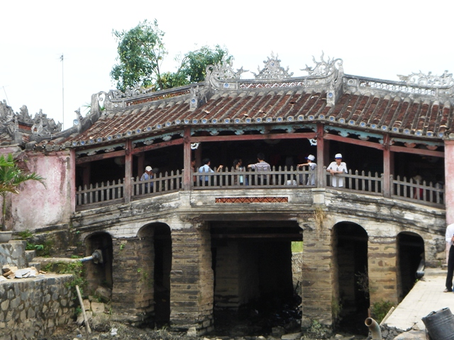 Japanese Covered Bridge, Hoi An, Vietnam.